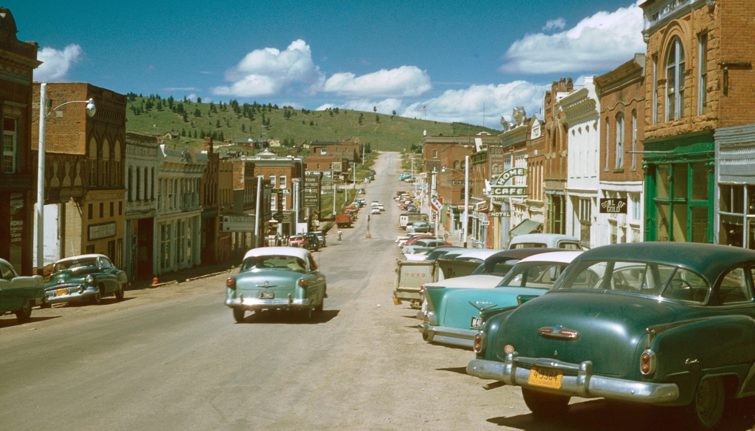 Downtown Cripple Creek, Colorado, 1957. Other images by this contributor